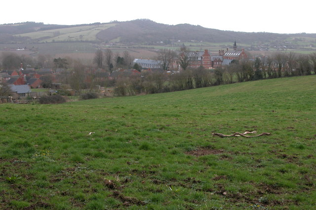 View across fields at Bartestree, Herefordshire, to the former Convent of Our Lady of Charity. It ceased to be a convent in 1992 and has since been converted into secular housing.